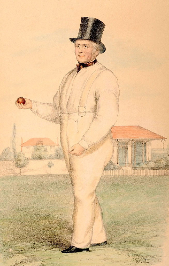 An original hand-tinted lithograph by John Corbet Anderson, from a drawing by the same artist, depicting the Sussex and England cricketer William Lillywhite, published in London, April 1854.